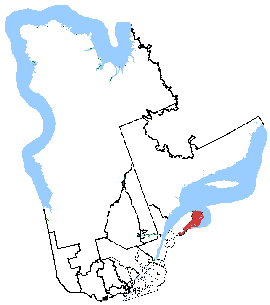 Gaspésie—Îles-de-la-Madeleine